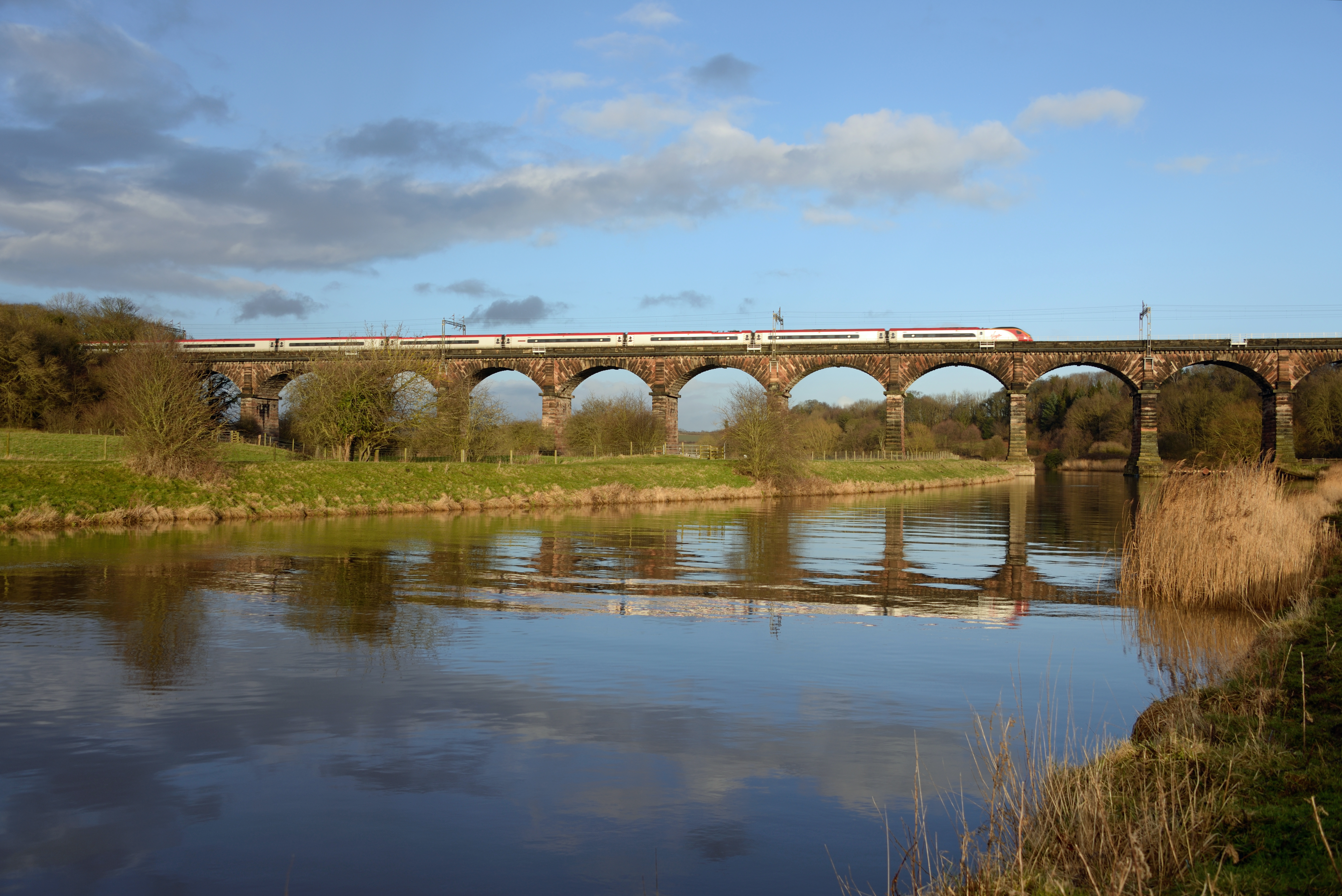 Pendolino on dutton viaduct 16381784526